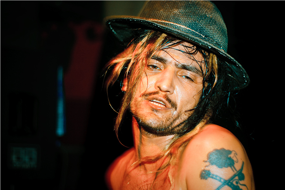 Boom Boom Kid (Carlos Rodríguez) performing in Berlin.